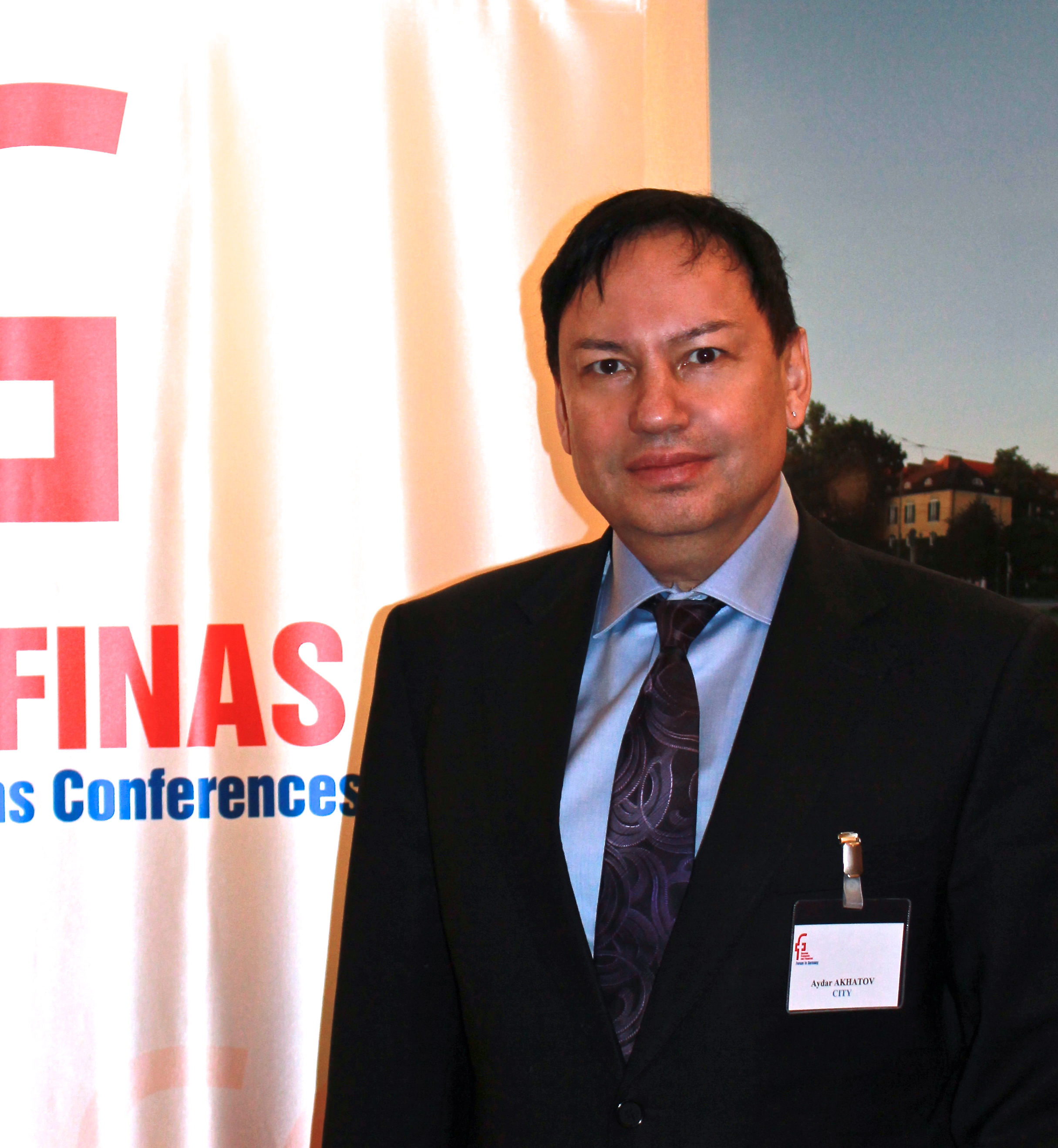 President of "CITY" Professor Aydar Akhatov at the Russian Economic and Financial Forum in Germany (Munich, November 2010).